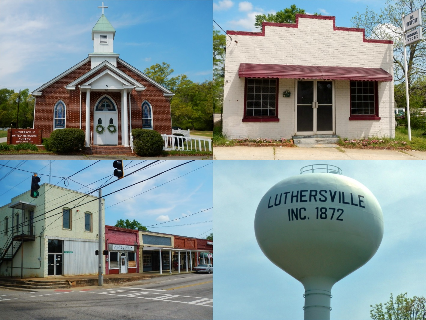 This is a series of photos that I shot of Luthersville, Georgia and personally assembled into this photo collage.